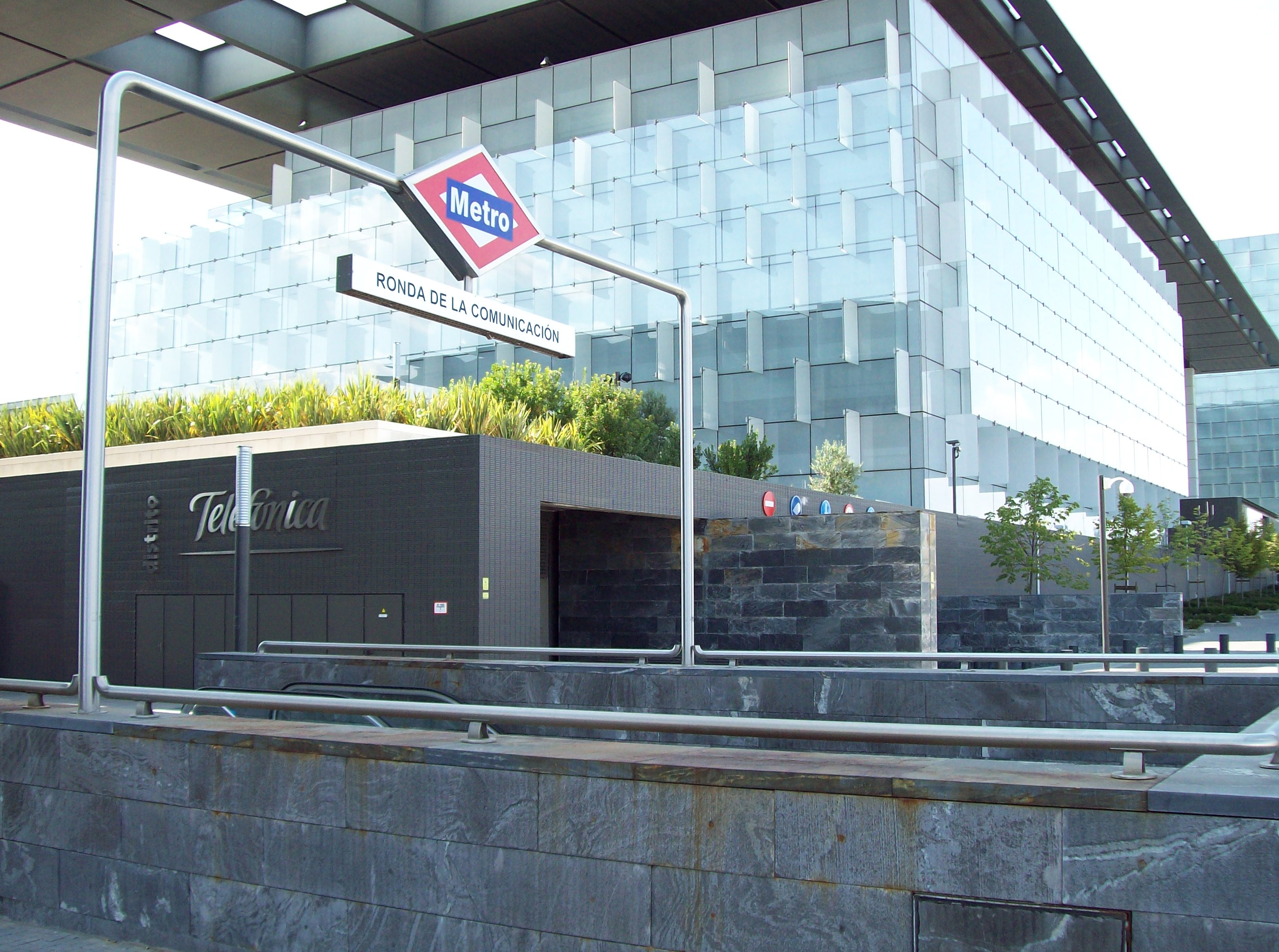 Entrance of Ronda de la Comunicación metro station in Madrid (Spain).